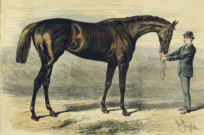 Coloured engraving of Derby winner Shotover. Taken from Illustrated London News 1882